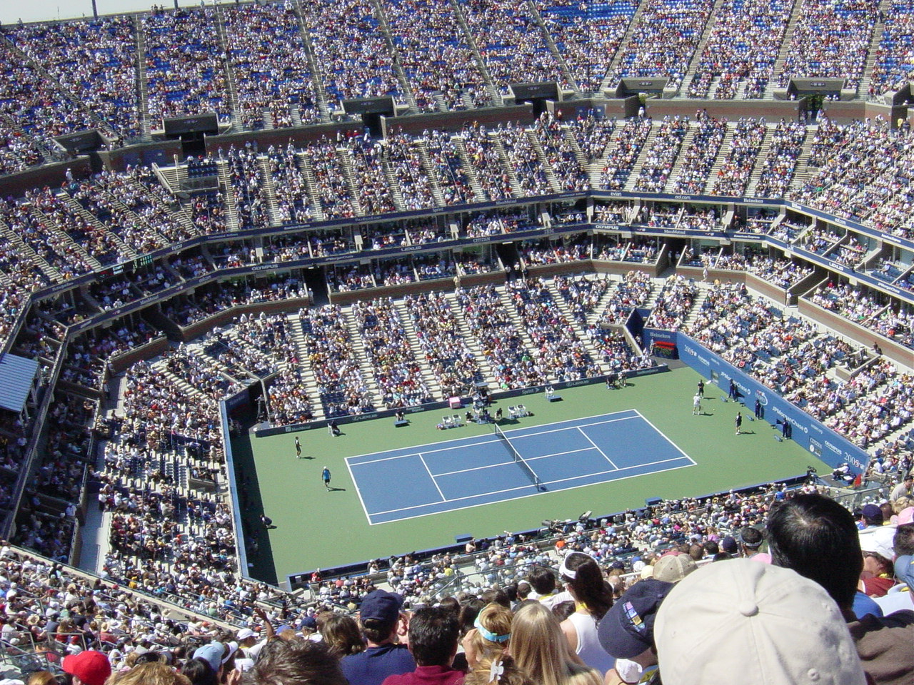 I took this picture at the 2005 US Open.